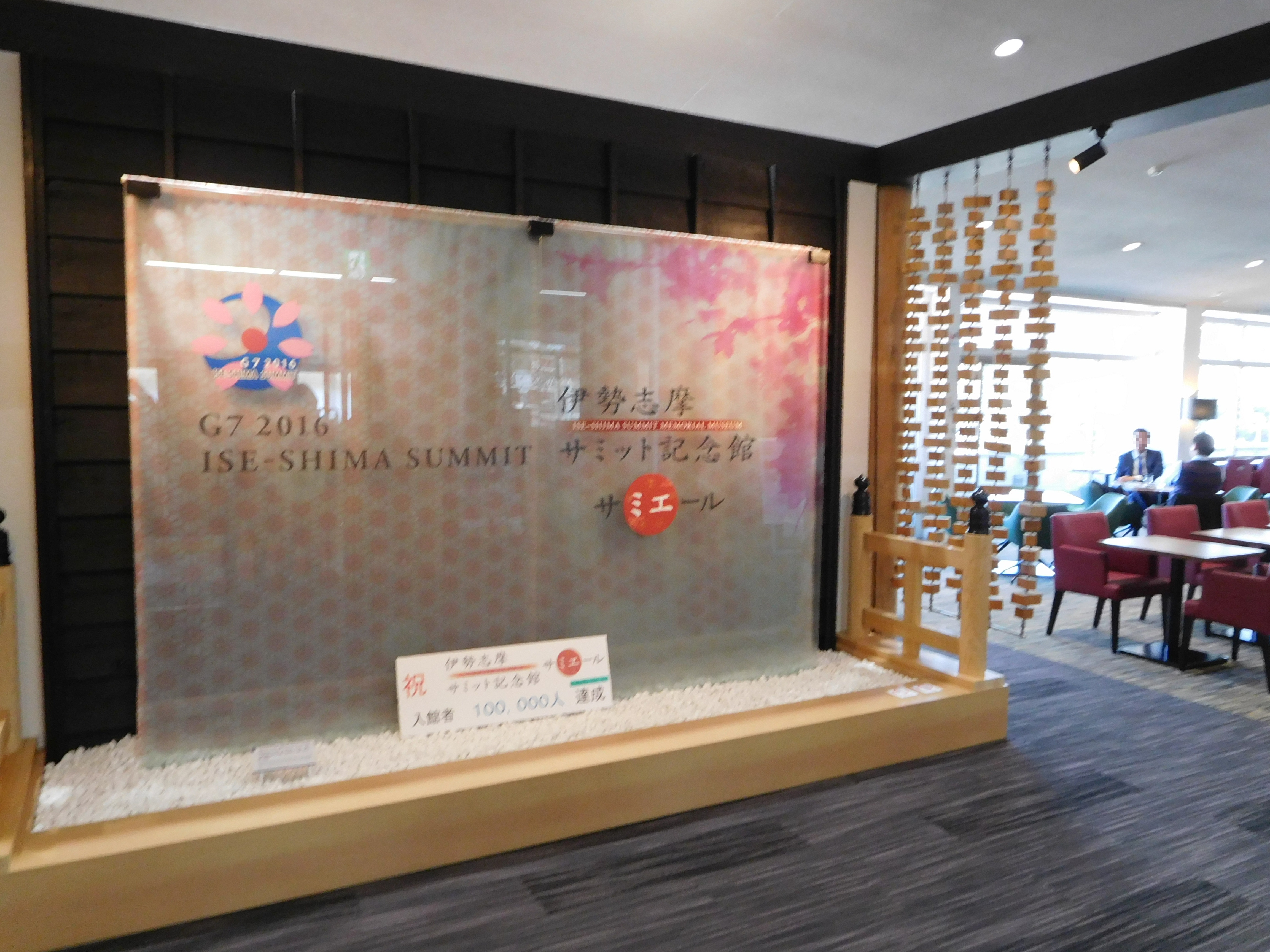 This is the entrance of Ise-shima Summit memorial Museum "SumMiel" in Shima, Mie, Japan.